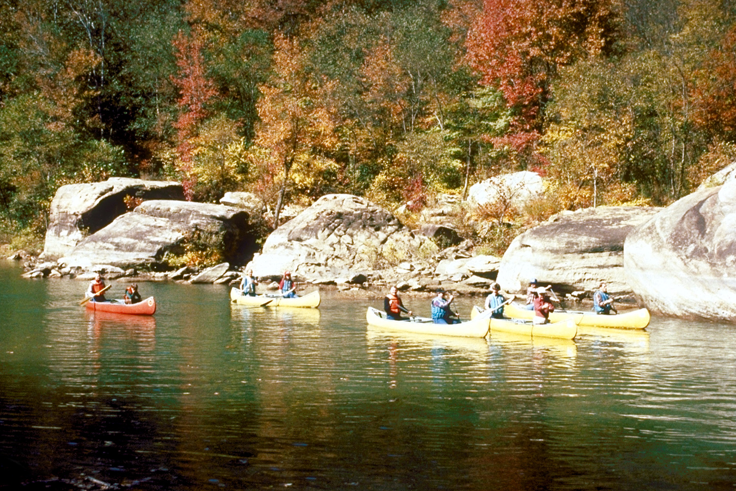 Canoeing on the Caney Fork River near its headwaters in Tennessee, USA.